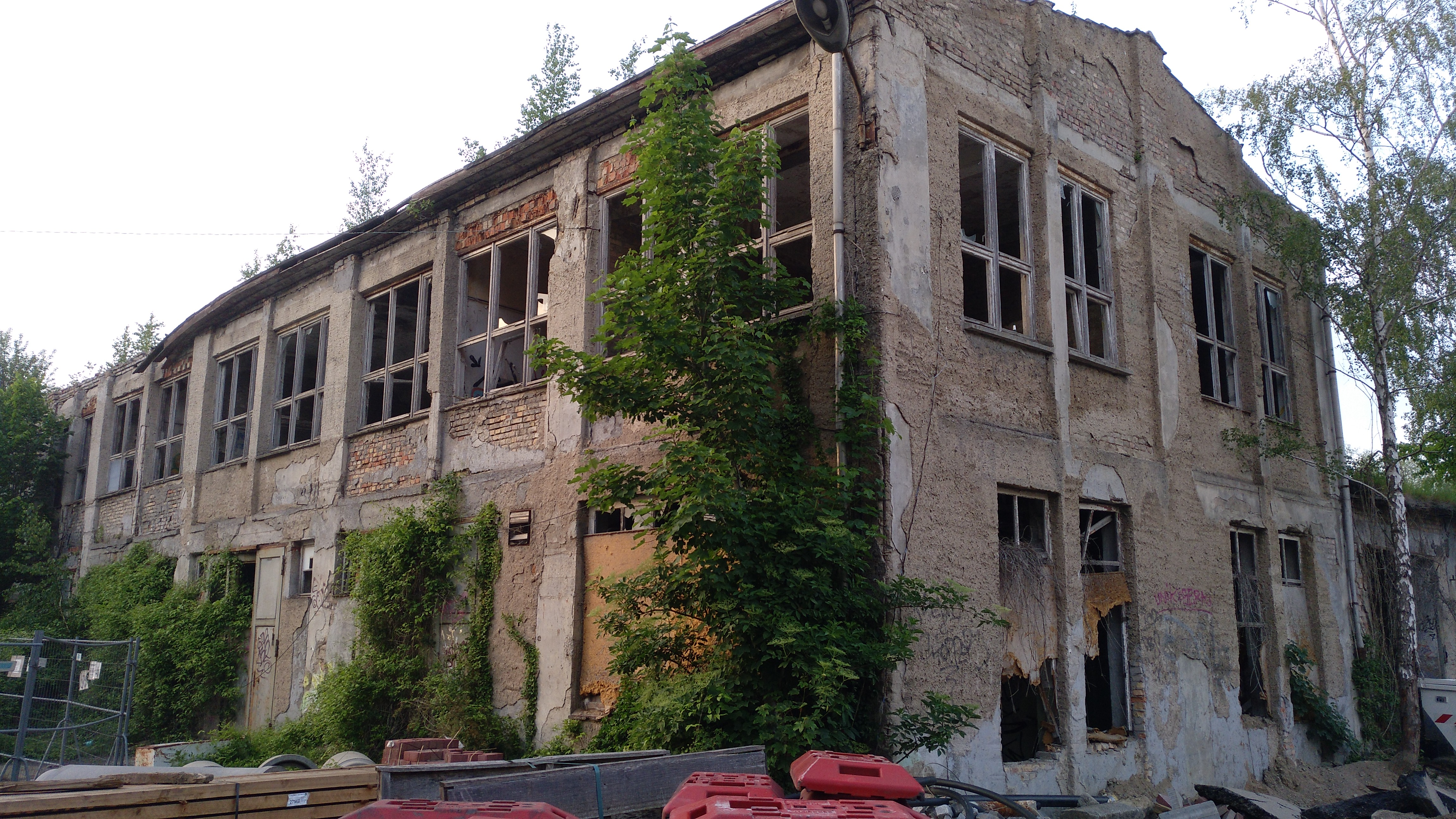 Abandoned administration building of the Heinkel aircraft plant Bleicherstrasse in Rostock, Germany, state of the building in 2019